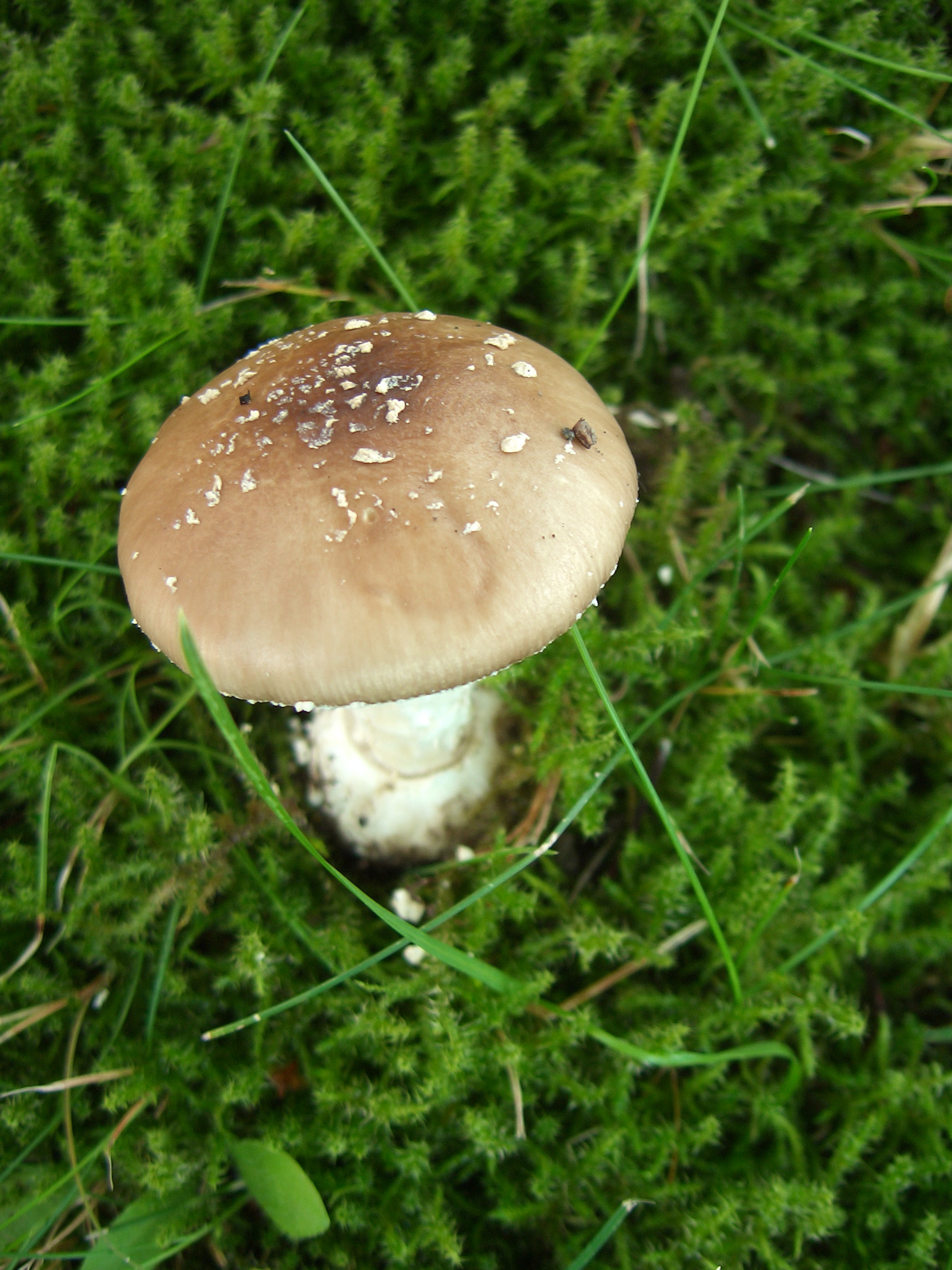 Panther Cap (Amanita pantherina), found at the Isle of Rügen, Germany.